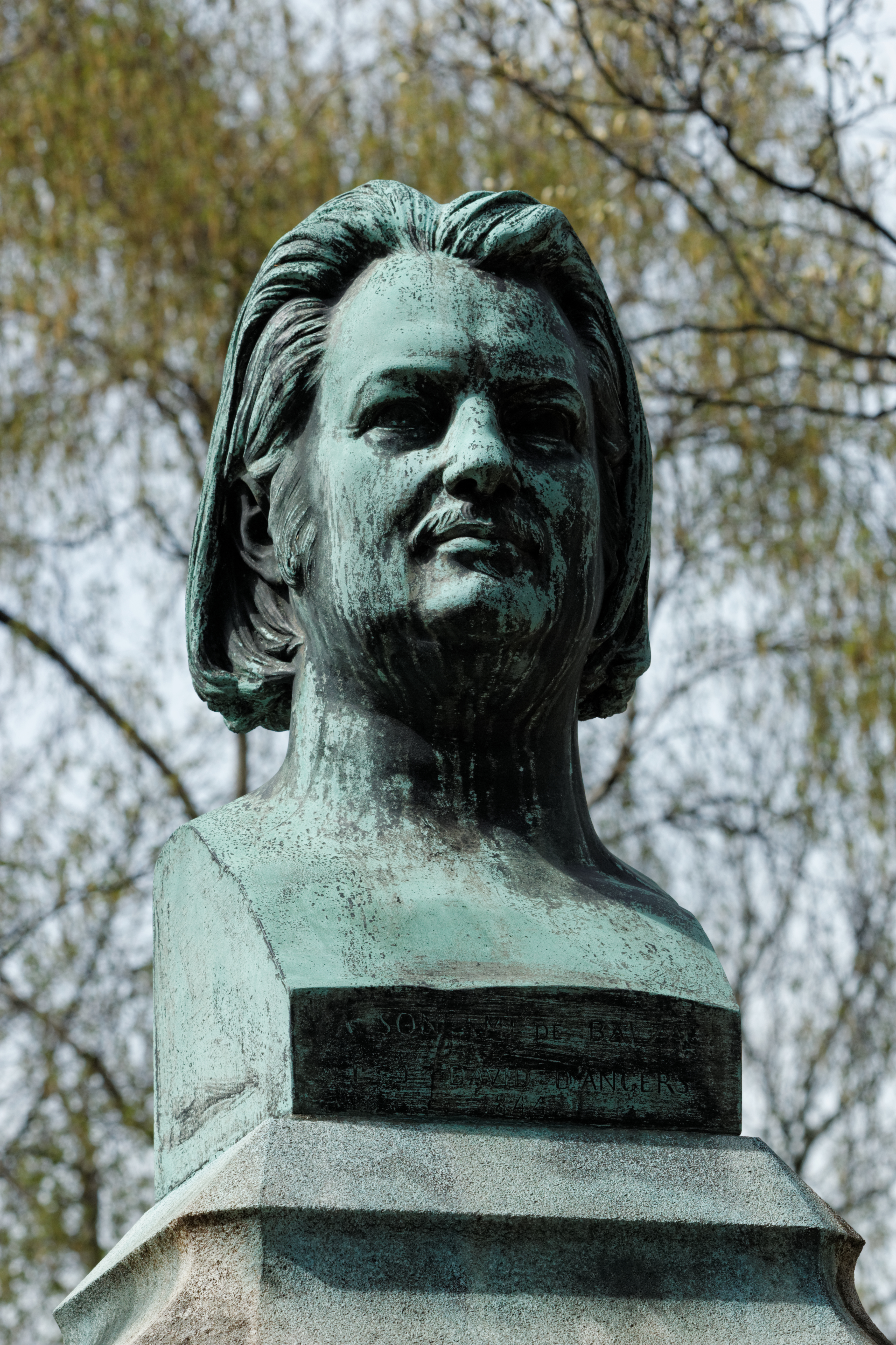 Stone surmounted by a bronze Herma, surrounded by a wrought iron fence.